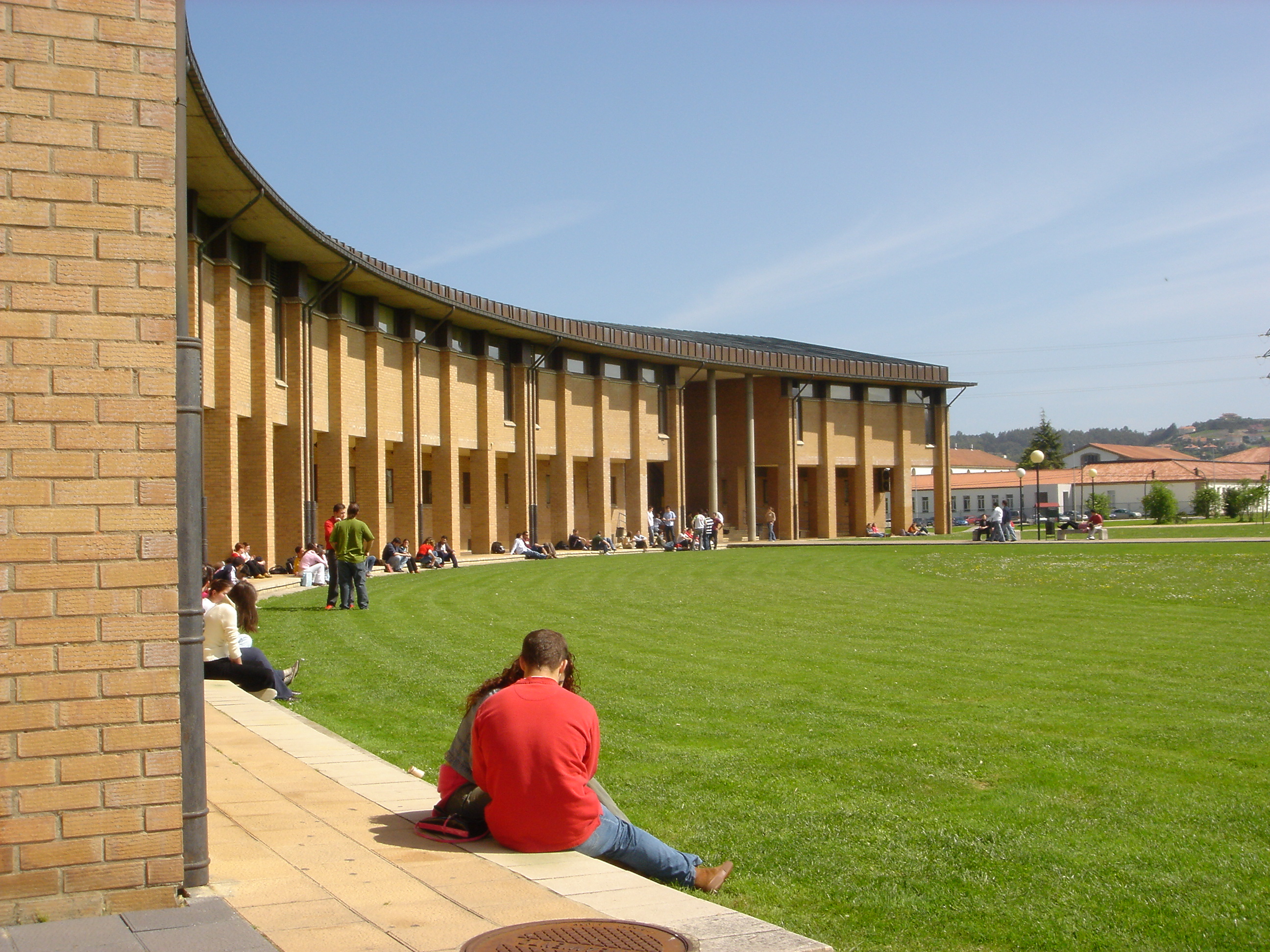 Building at the University Campus in Gijón (Telecommunications Building), Spain